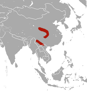 Indochinese Short-tailed Shrew (Blarinella griselda) range